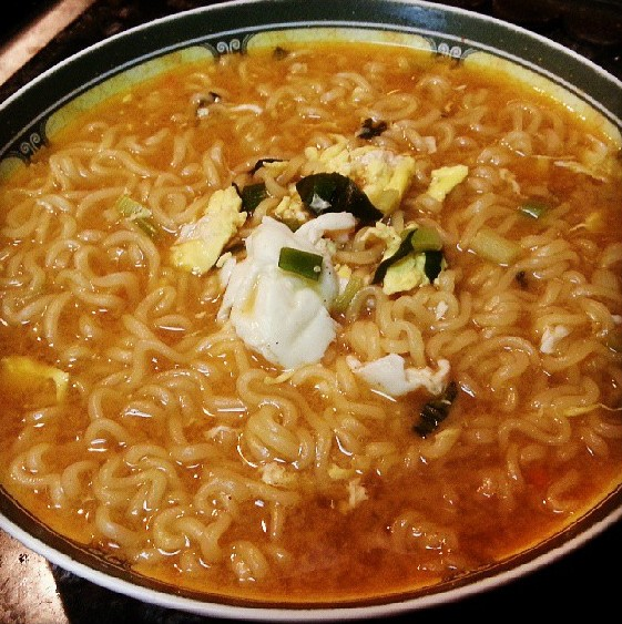 Ansungtangmyun dish